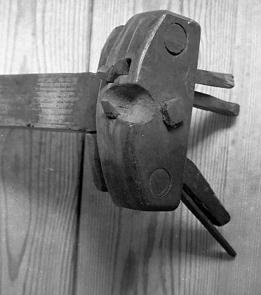 Tool used by a Cooper to make the groove in barrels.